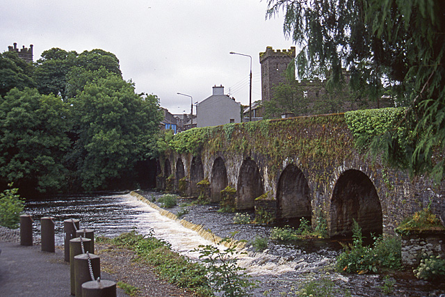 Bridge over the Sullane, Macroom. In the background, the square tower of the Church of Ireland church building.